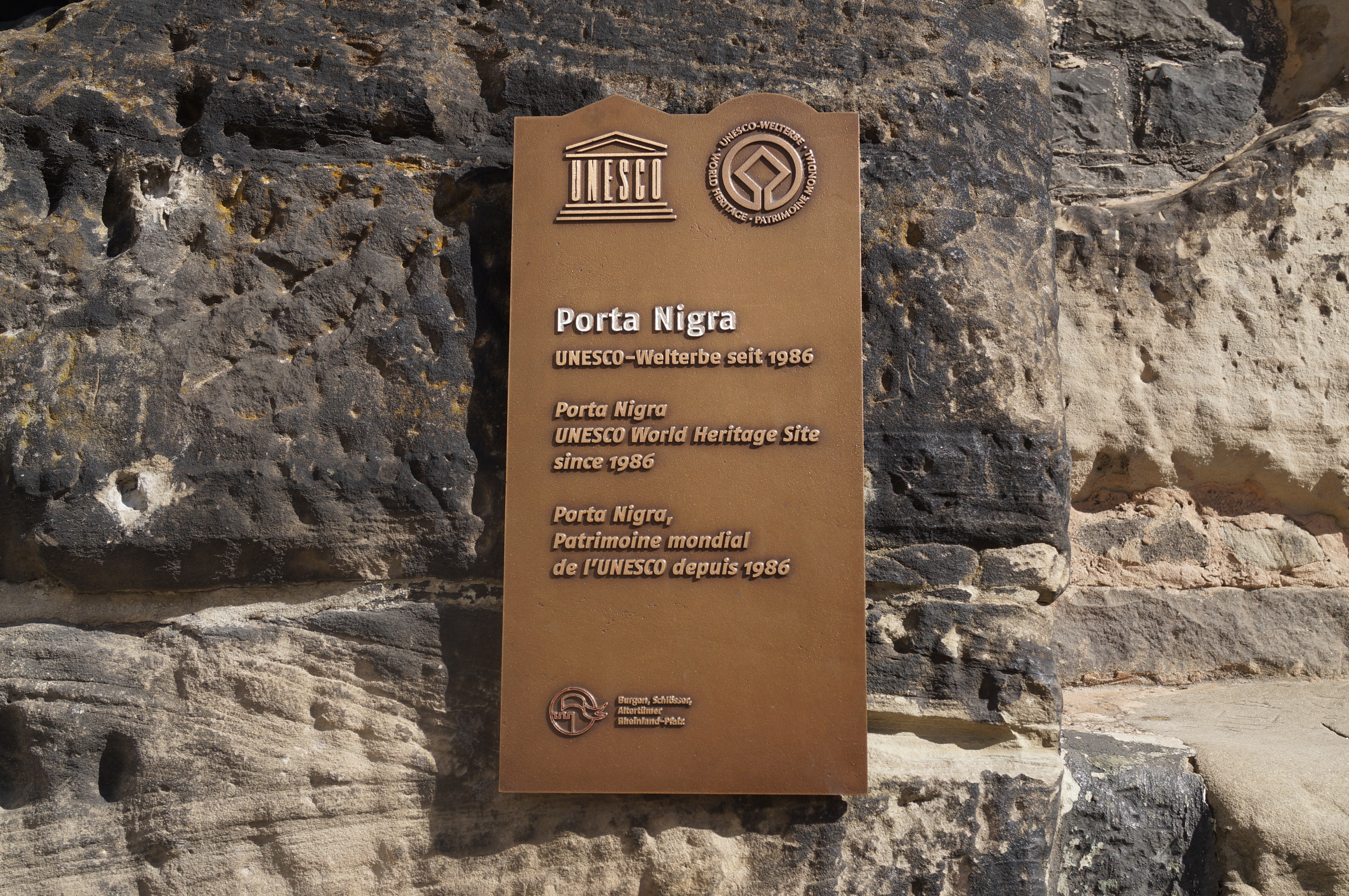 Porta Nigra UNESCO Information Label